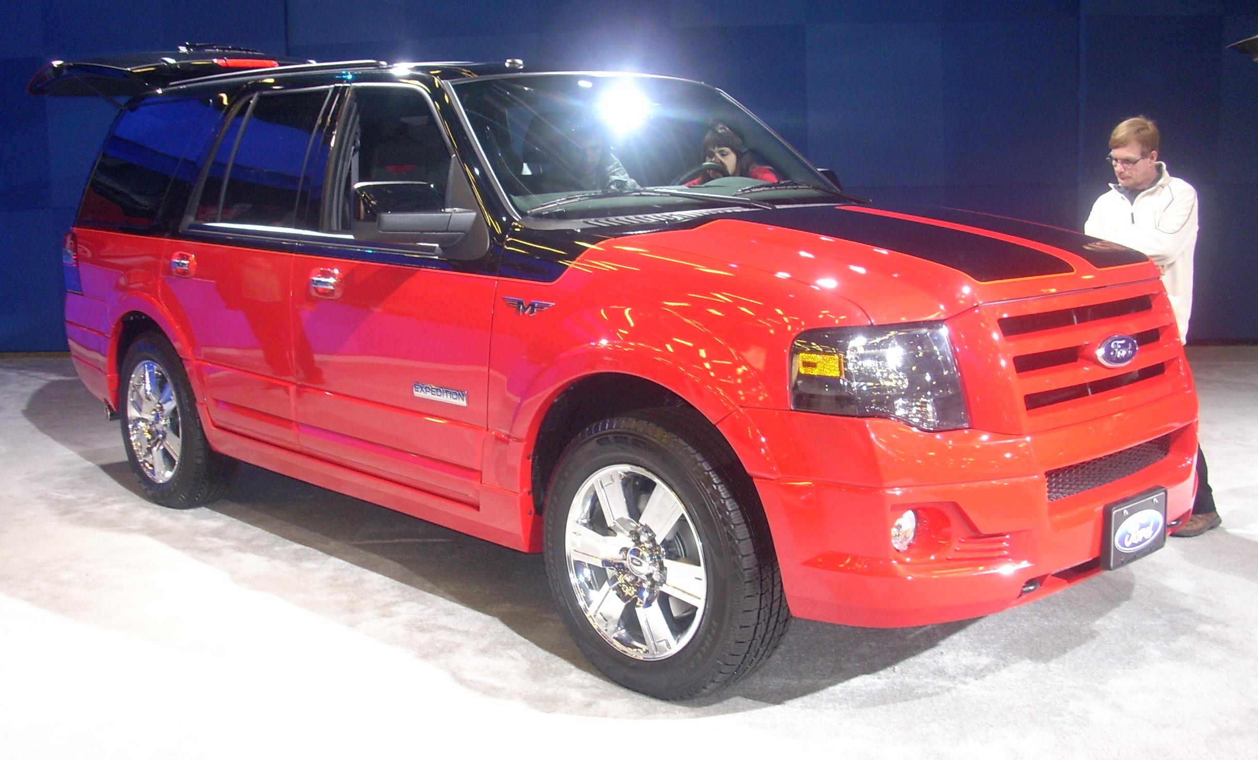 2008 Ford Expedition photographed at the Montreal Auto Show.